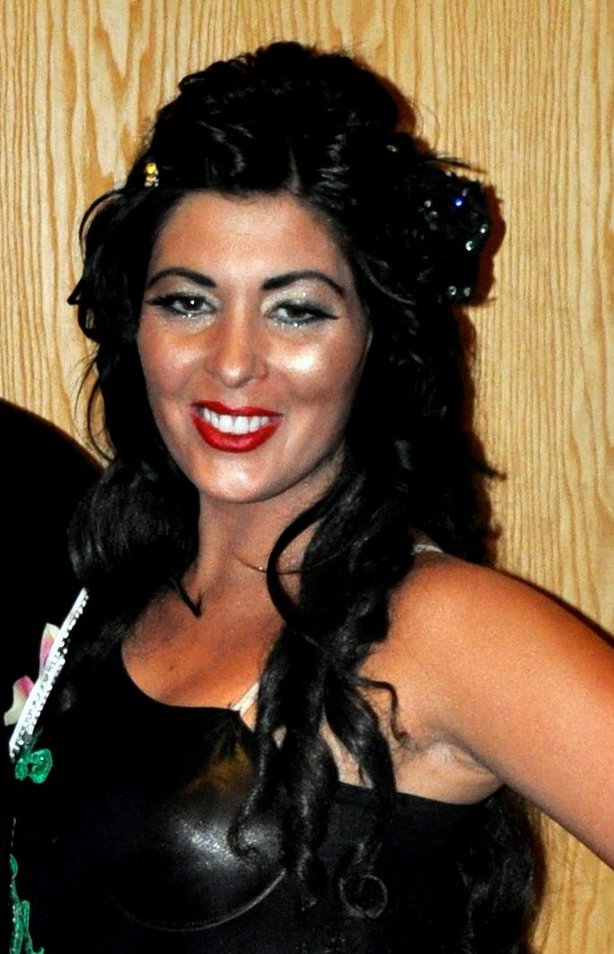 Róisín Mullins backstage at Pinewood studios, Irish dancing for Keith Lemon's LemonAid, on ITV1.